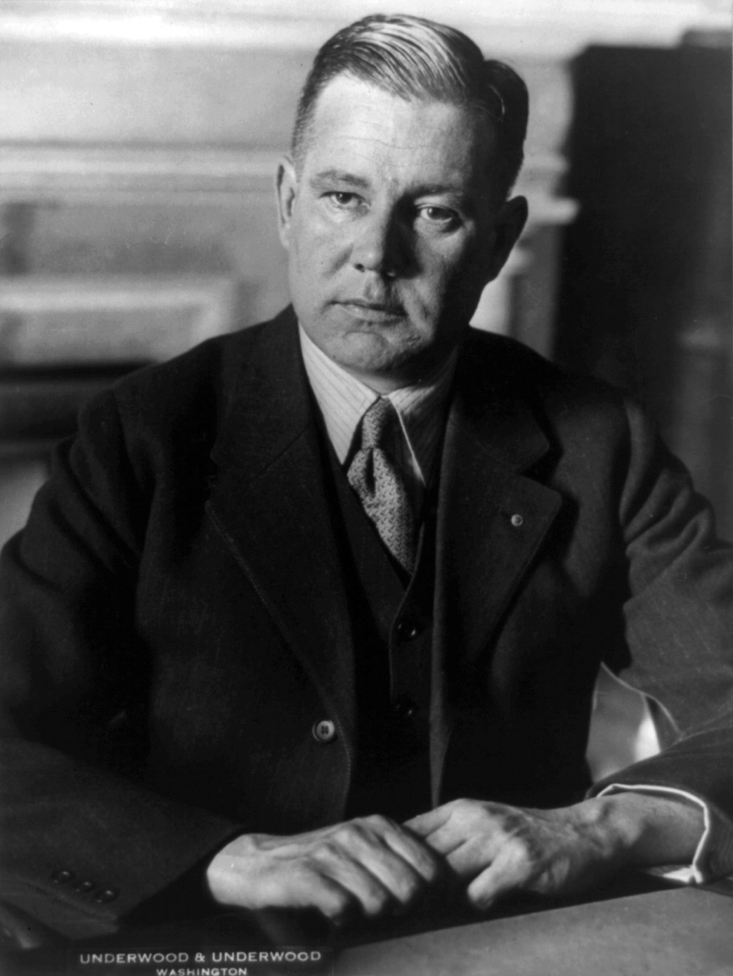 Bronson M. Cutting, U.S. Senator from New Mexico